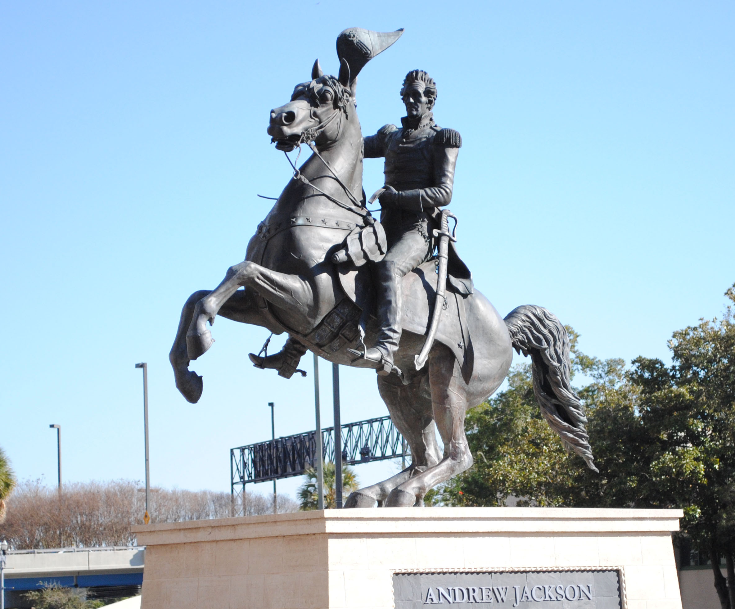 A photo of the Andrew Jackson statue in downtown Jacksonville. This is an updated photo to show that the Andrew Jackson statue has moved locations in downtown Jacksonville.